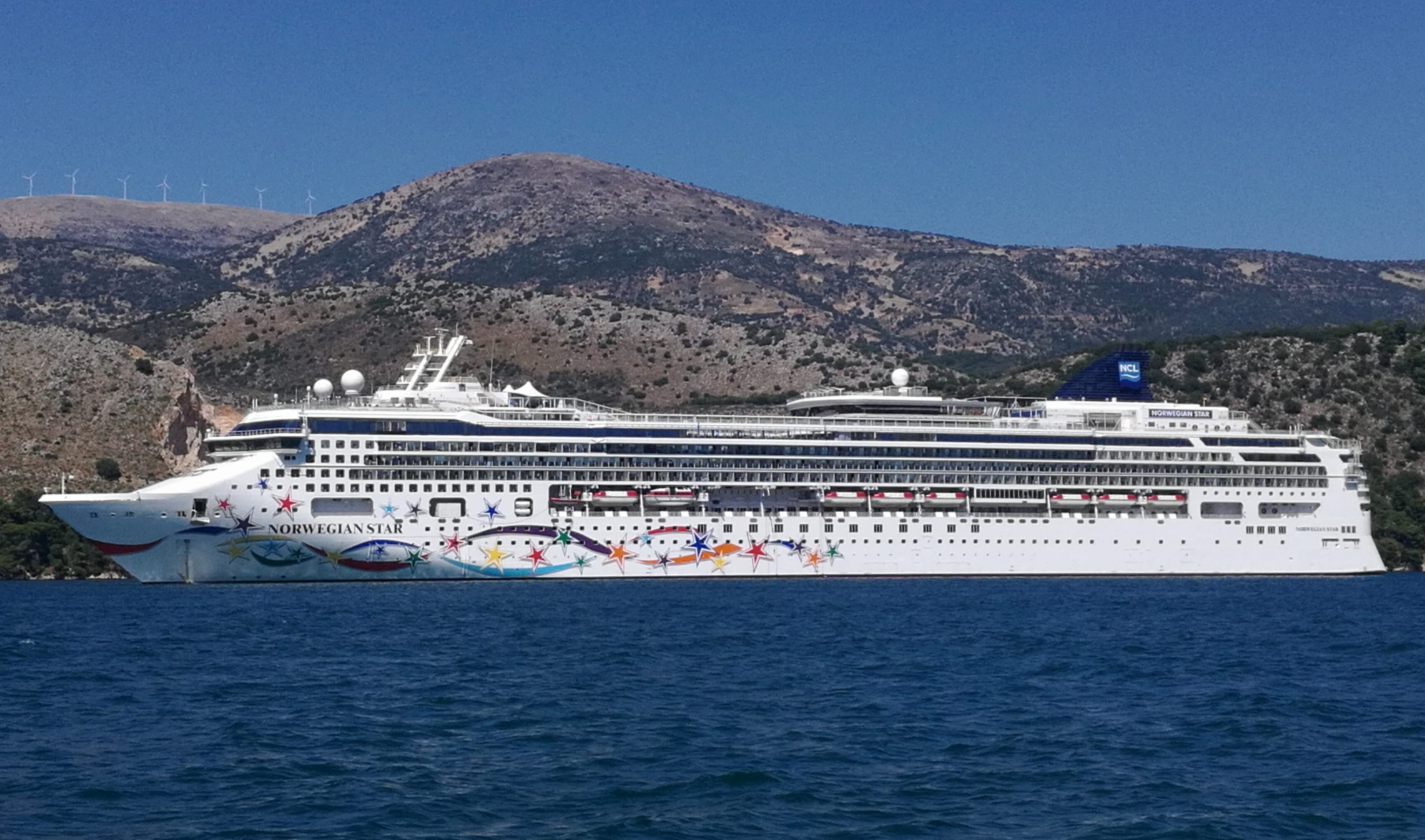 Norwegian Star anchored in Argostoli's gulf